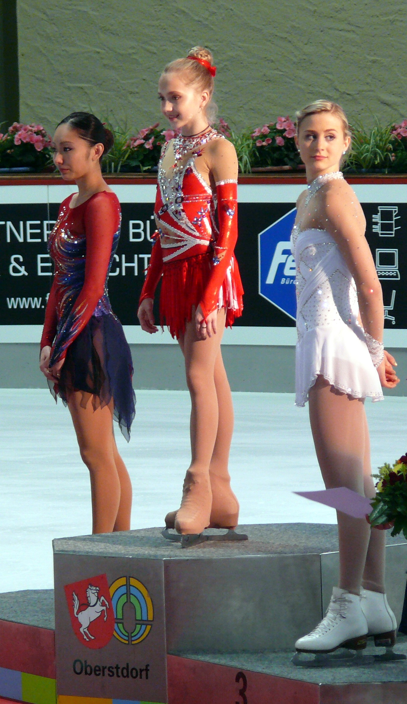 Victory ceremony ladys at the Nebelhorn Trophy 2013 in Oberstdorf / Bavaria / Germany.